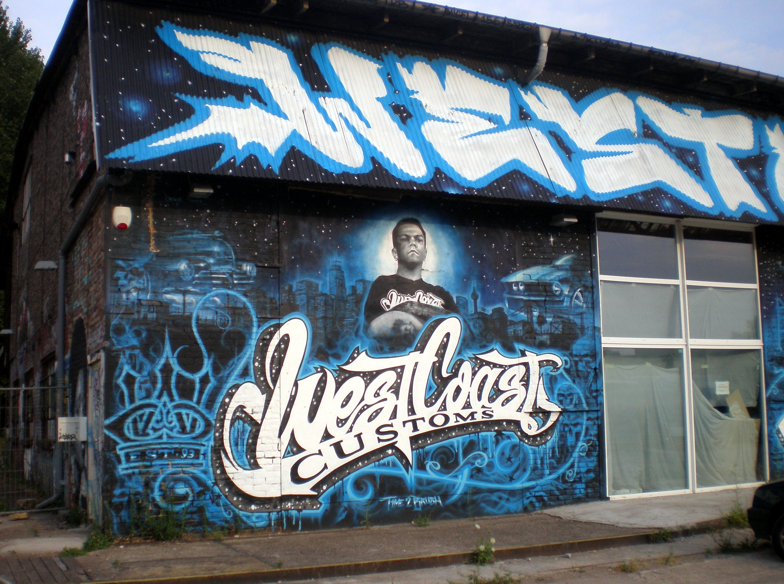 Main Grafiti of the WCC subsidiary "Street Customs Berlin".